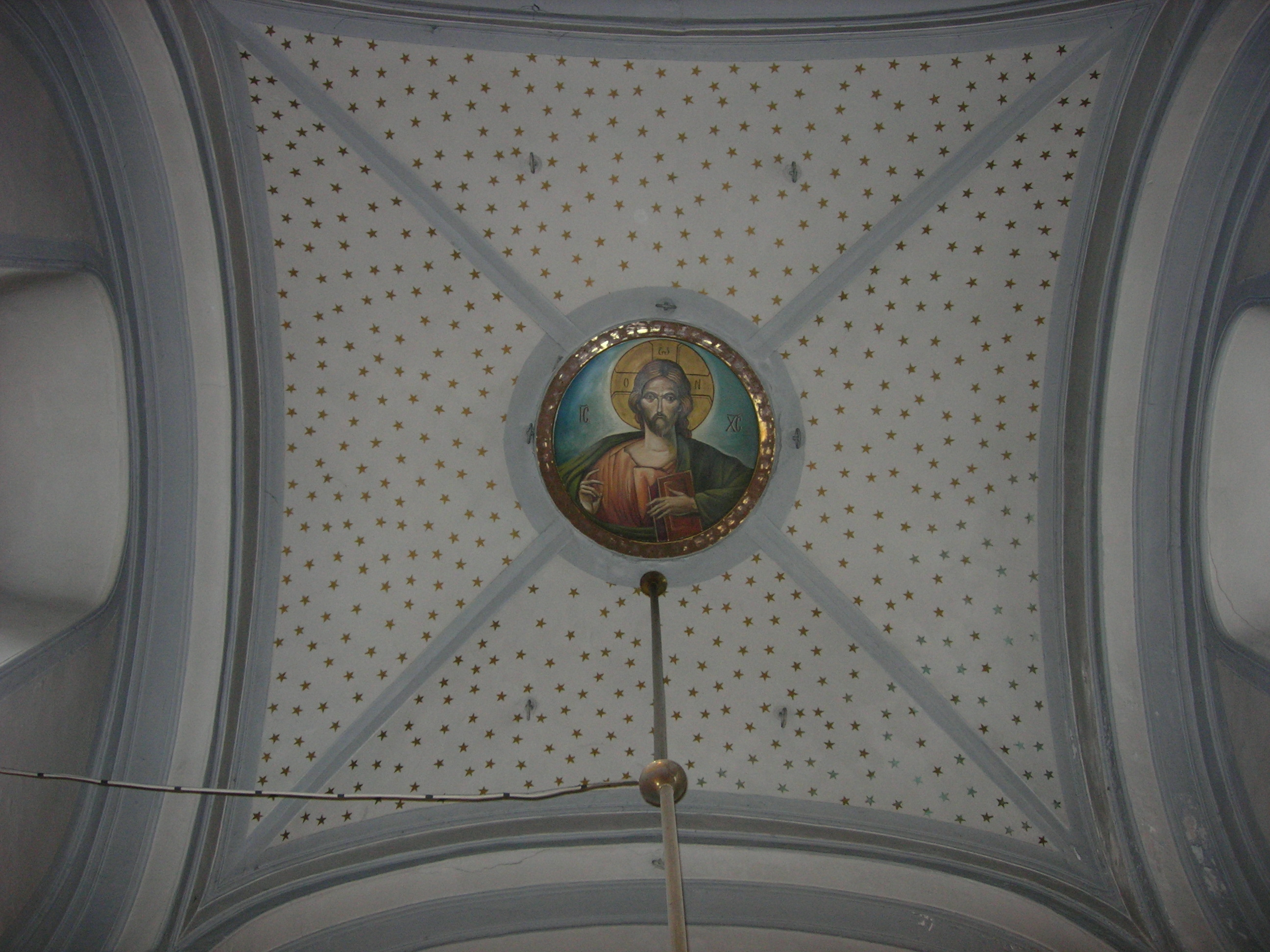 The dome of the Crypt